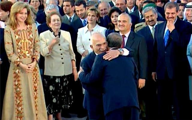 King Hussein of Jordan Hugging Jordanian poet Haider Mahmoud at the 1998 Jordan Independence Day Celebration